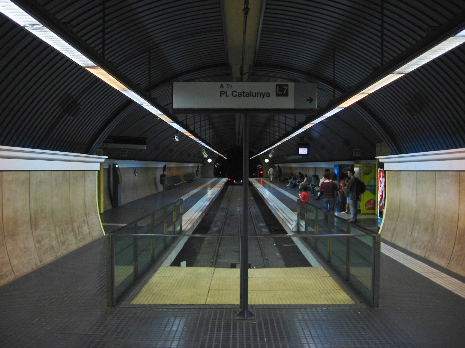 Platform of Avinguda Tibidabo station, Barcelona Metro